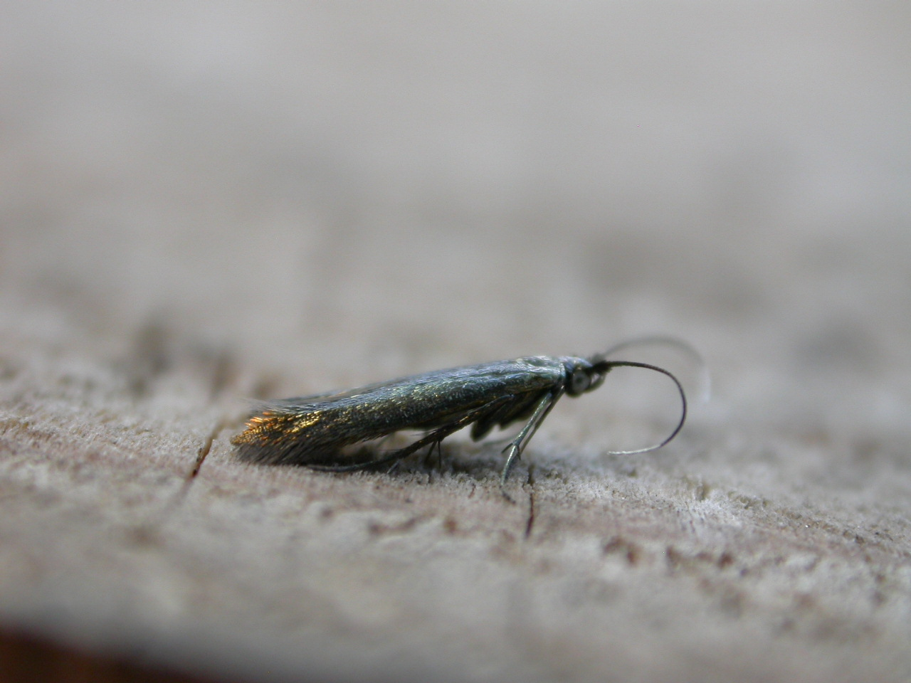 Coleophora sp., possibly frischella, to MV light, Hellerup, Denmark, 5 August 2003